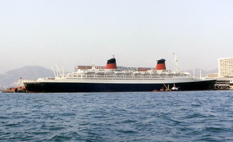 The SS France docked at Kowloon in Hong Kong on her round-the-world final cruise as the France